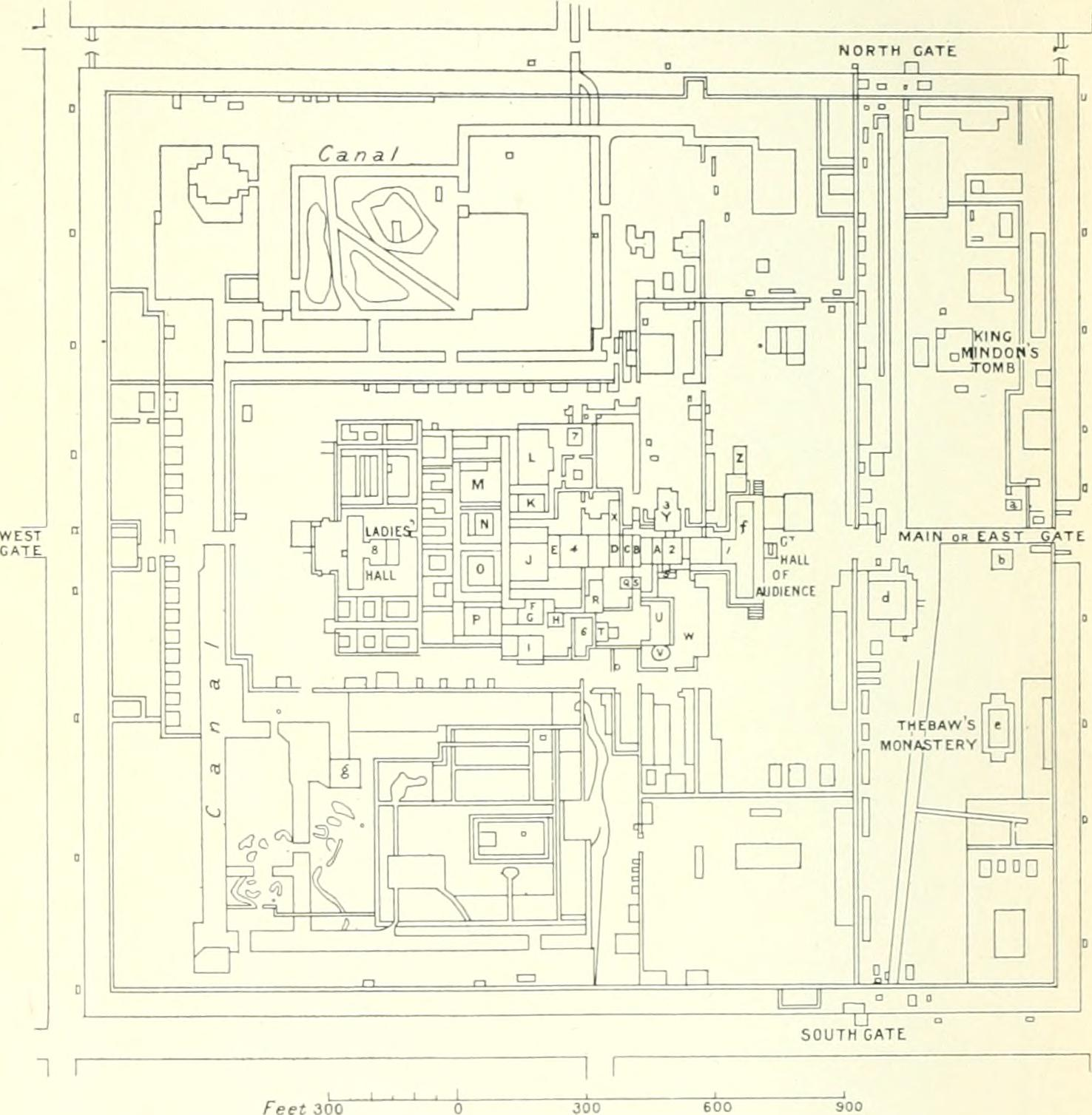 Identifier: handbooktravelle00john Title: A handbook for travellers in India, Burma, and Ceylon . Year: 1911 (1910s) Authors: John Murray (Firm) Subjects: India -- Guidebooks Burma -- Guidebooks Sri Lanka -- Guidebooks Publisher: London : J. Murray Calcutta : Thacker, Spink, & Co. View Book Page: Book Viewer About This Book: Catalog Entry View All Images: All Images From Book Click here to view book online to see this illustration in context in a browseable online version of this book. Text Appearing Before Image: LodiIdu John MiUTAv; AlbdUArlo Street THE PALACE, MANDALAY. Text Appearing After Image: L Feet 300 Reproduced, by kind permission of the Secretary of State for India, from the Annual Reportfor 1902-3 of the Archceological Survey of India. p - Zetawun Figures of the royal ancestors were kept here. C. ) The King held his morning levee. It is an open passage between two roonis, in the D. ) western of which D, the King was seated with his attendants. E. The Glass Palace. The western half is one large room. The Water-Feast Throne stands at the west side of the room. F. Nursery. G. Daily attendance room for Queens.H. King and Queens special living-room. I. Kind of drawing-room where the court met to witness theatrical displays in the theatre on the south side. The stage is now cleared away.J. Originally the Queens room. Thebaws eldest child was born here, but Supayalat never regularly inhabited it.K. Tabindaing House. L. Seindon House, residence of Dowager Queen.M. Northern Palace^N. Western „ | Houses made over to inferior Queens in King Mindons time, 0. r in Thebaws to Pri